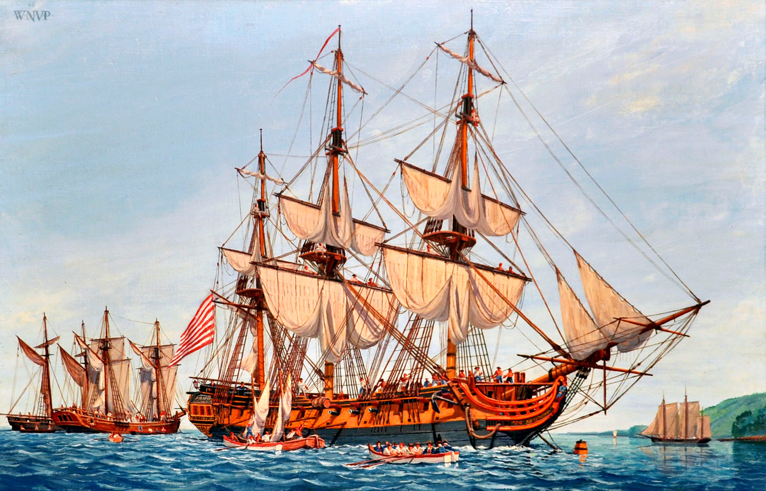 A Revolutionary War painting depicting the Continental Navy frigate Confederacy is displayed at the Navy Art Gallery at the Washington Navy Yard.